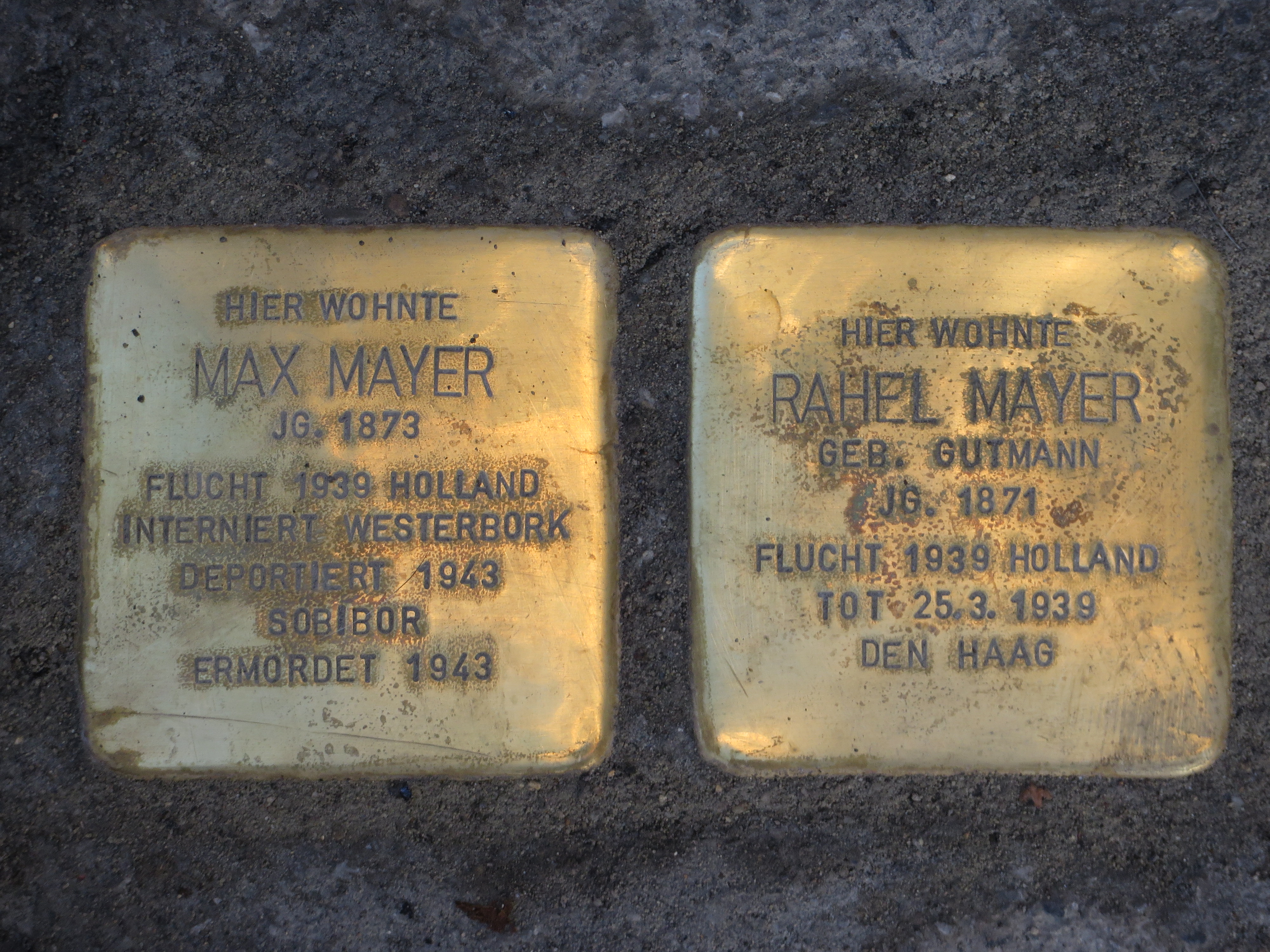 Stolpersteine at house Parkweg 1 in Witten, Germany